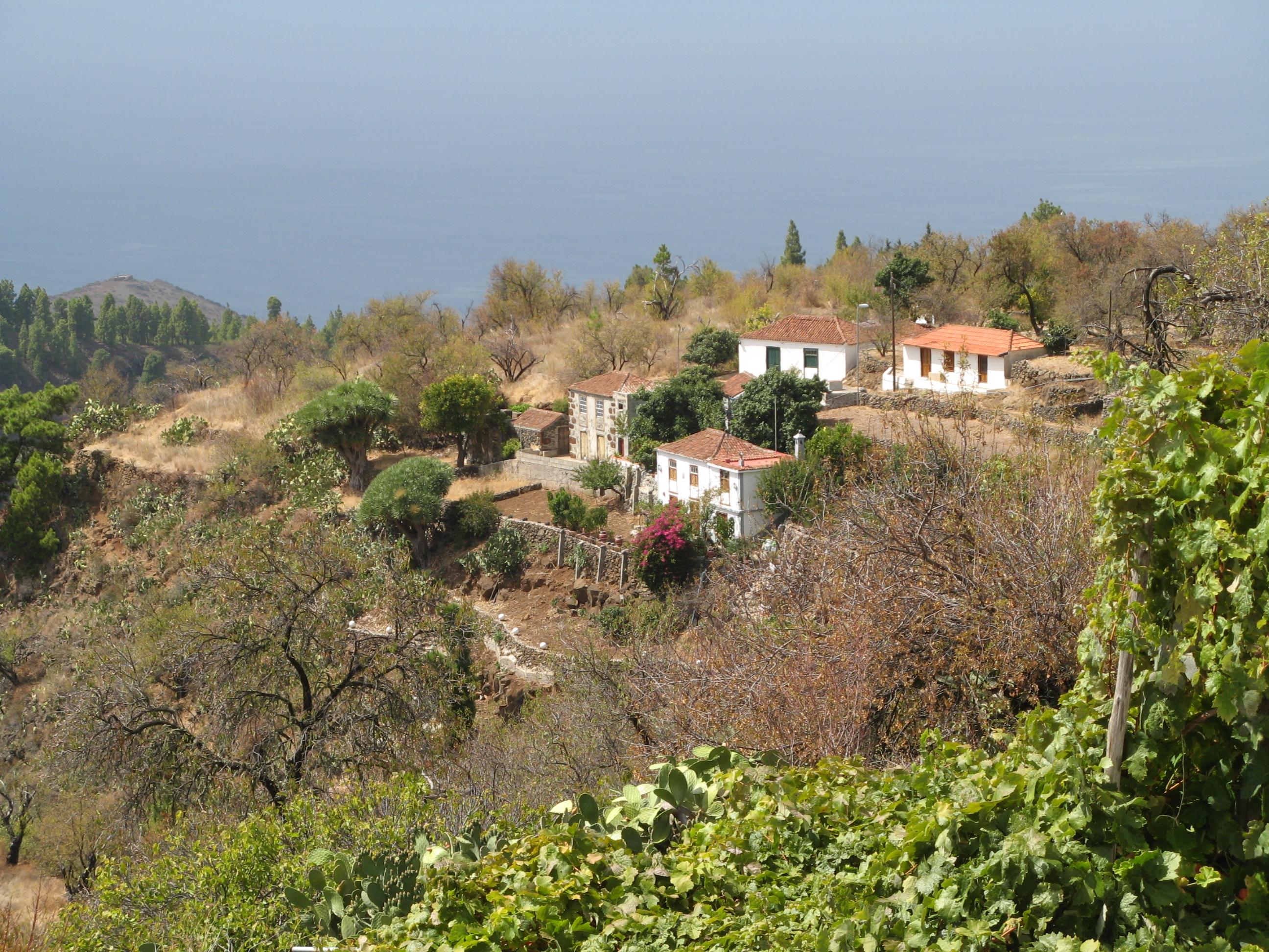 Restored palmeric country houses in Garafía